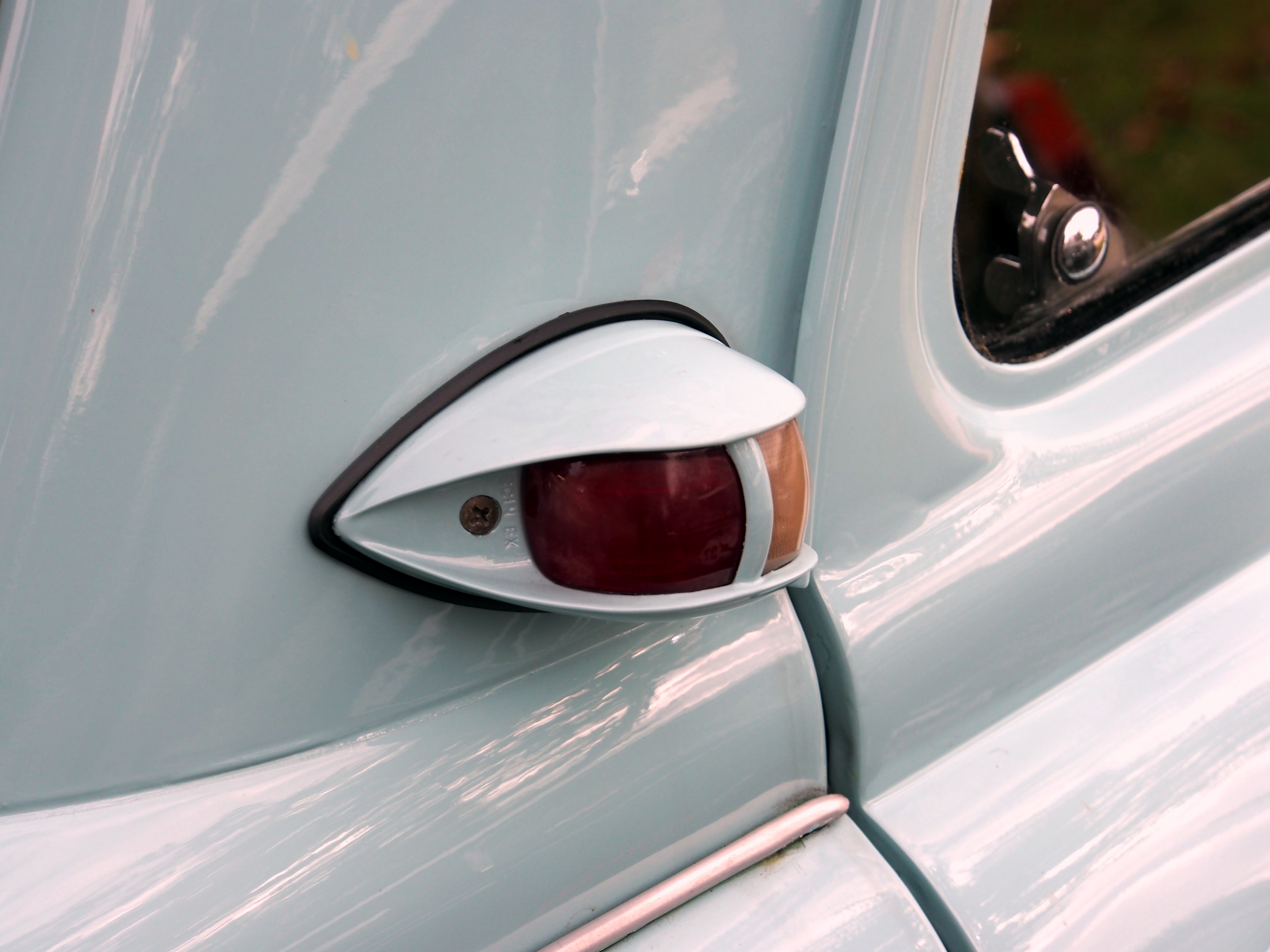 Photographed at Horn, the Netherlands.